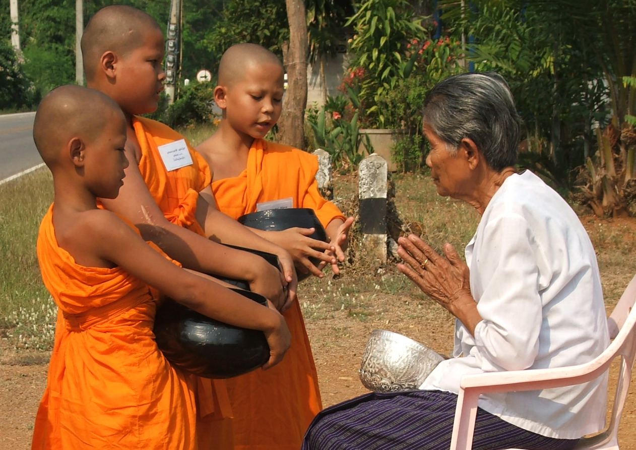 novice in the Buddhist religion group receives food from the Buddhist.Thailand, Uttaradit, 2007. Own work